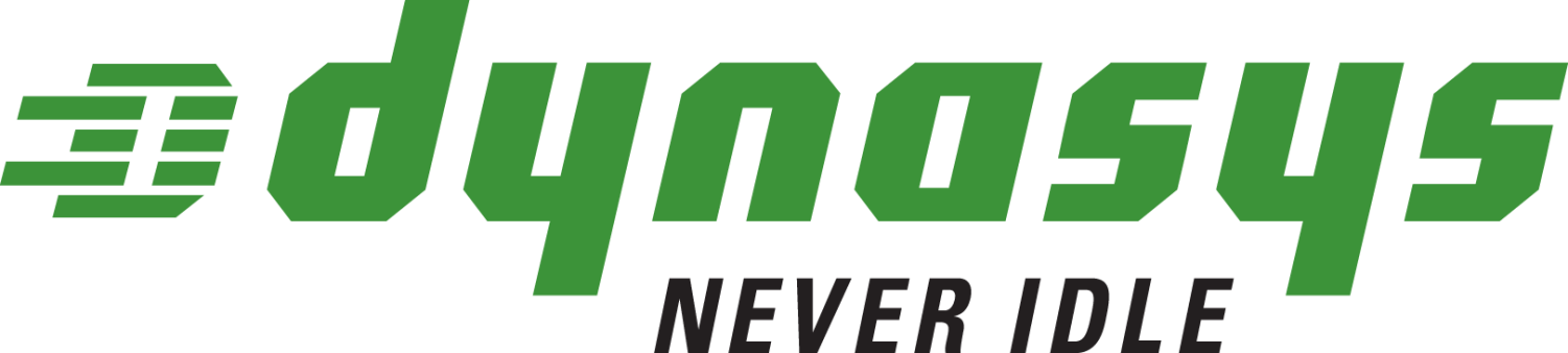 Dynasys Logo with Tagline